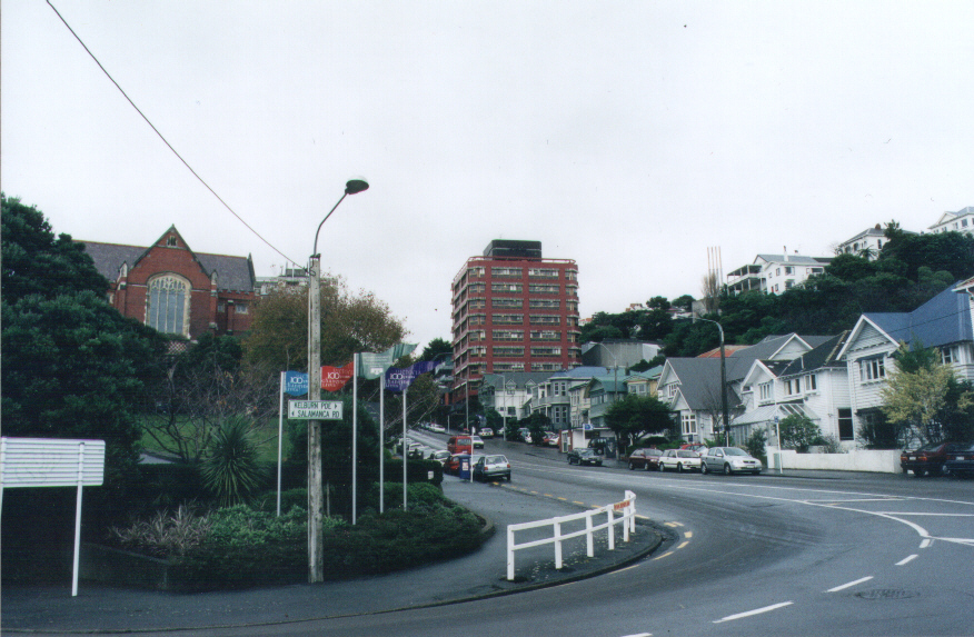 Main Campus of Victoria University at Kelburn Parade. Photo taken from corner of Salamanca Road.